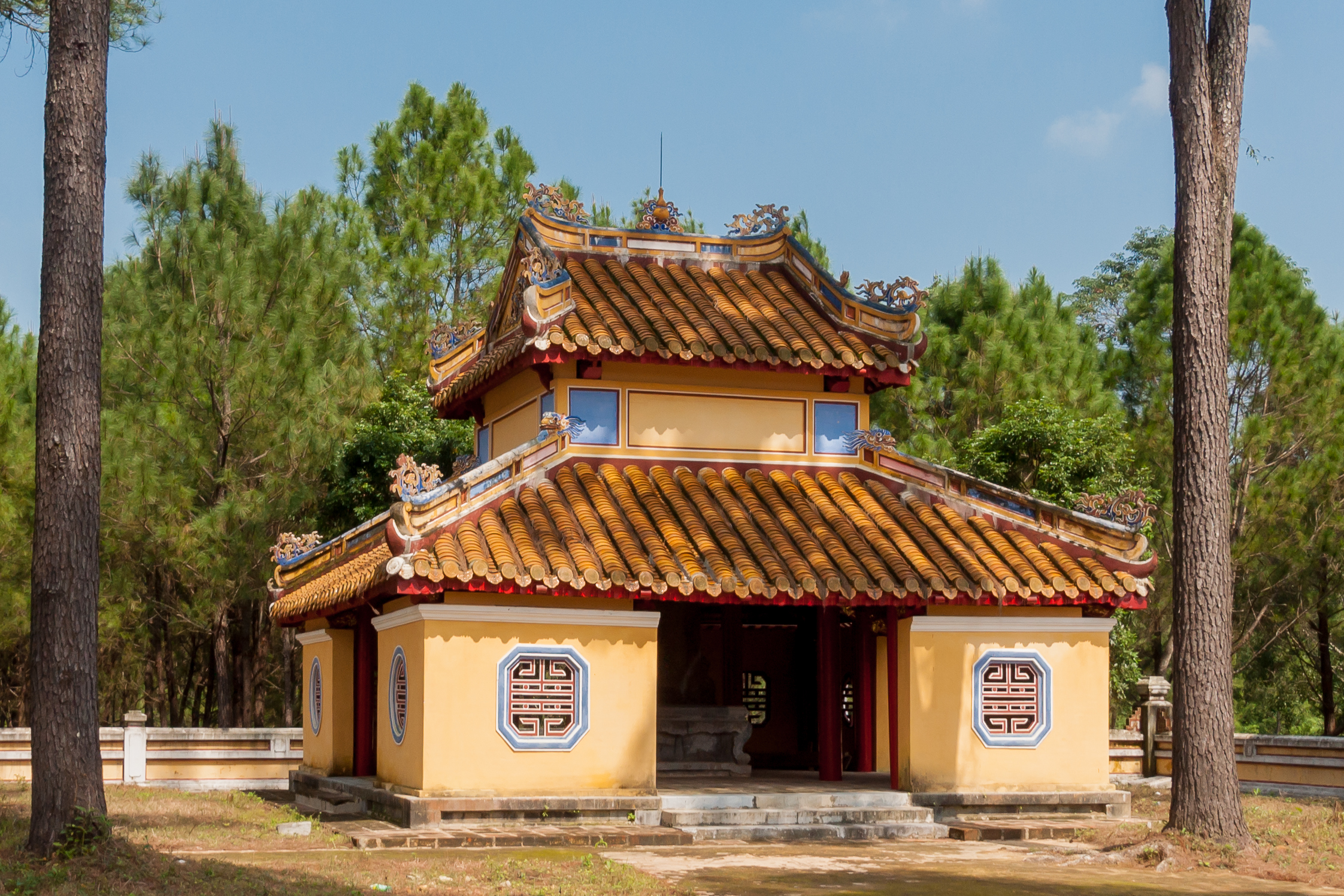 Hue, Vietnam: Pavillon on the burial site of Emperor Gia Long